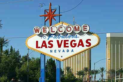 Sign just to the south of the Las Vegas Strip welcoming visitors to the city.